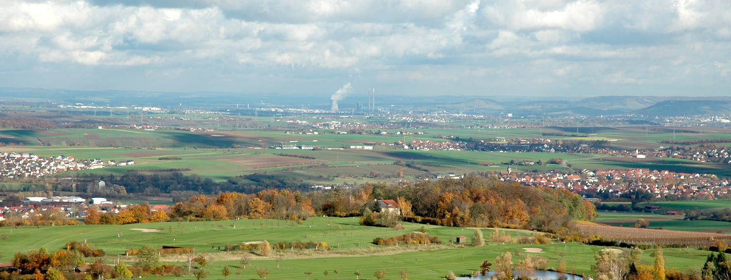 view from Michaelsberg towards Heilbronn.